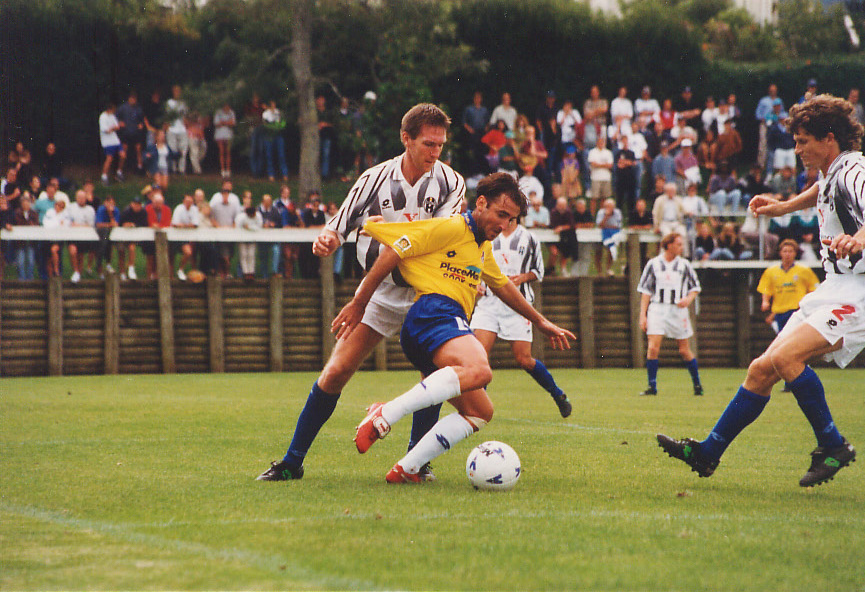 Mark Elrick playing for Central in NZ National Soccer League